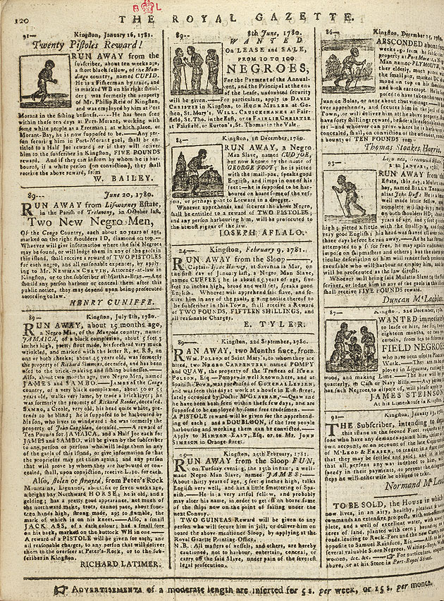 Royal Gazette, Jamaica 19 May 1781 Page 120